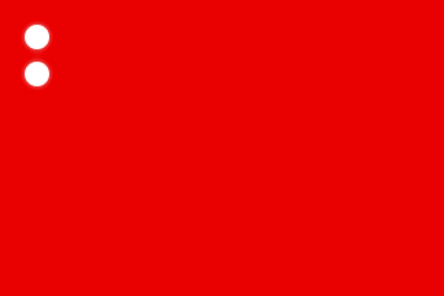 These are my own designs using MS Paint 2015 based upon Napisaola Alexandre Le Gras: Album des pavillons, guidons, flammes de toutes les puissances maritimes book published in 1864 on page 4. It is the command flag Rear Admiral of the Red squadron flown at the top of the masthead in use from 1702 to 1864.